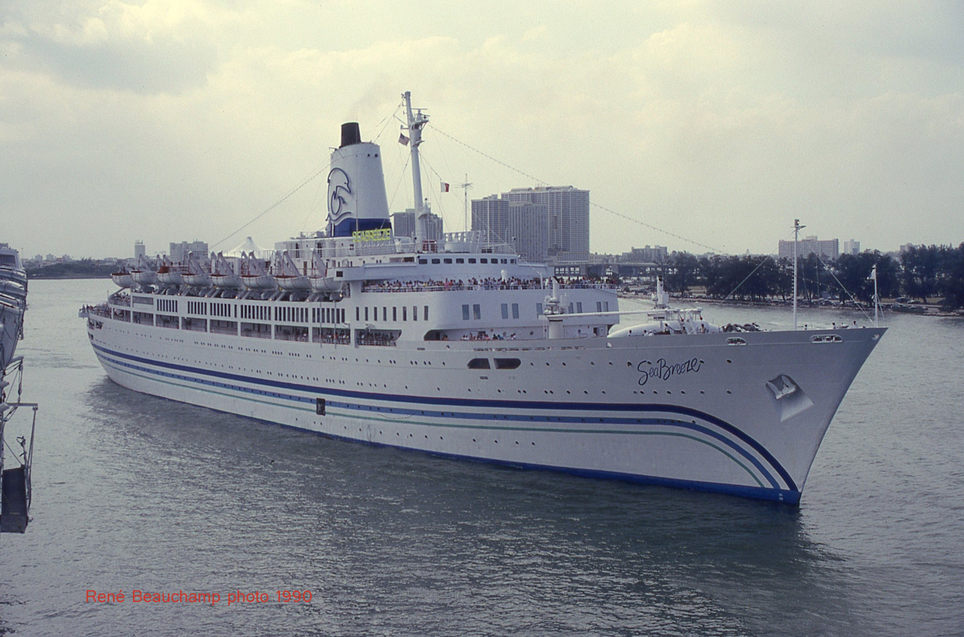 The cruise ship SeaBreeze leave Miami on May 7, 1990.